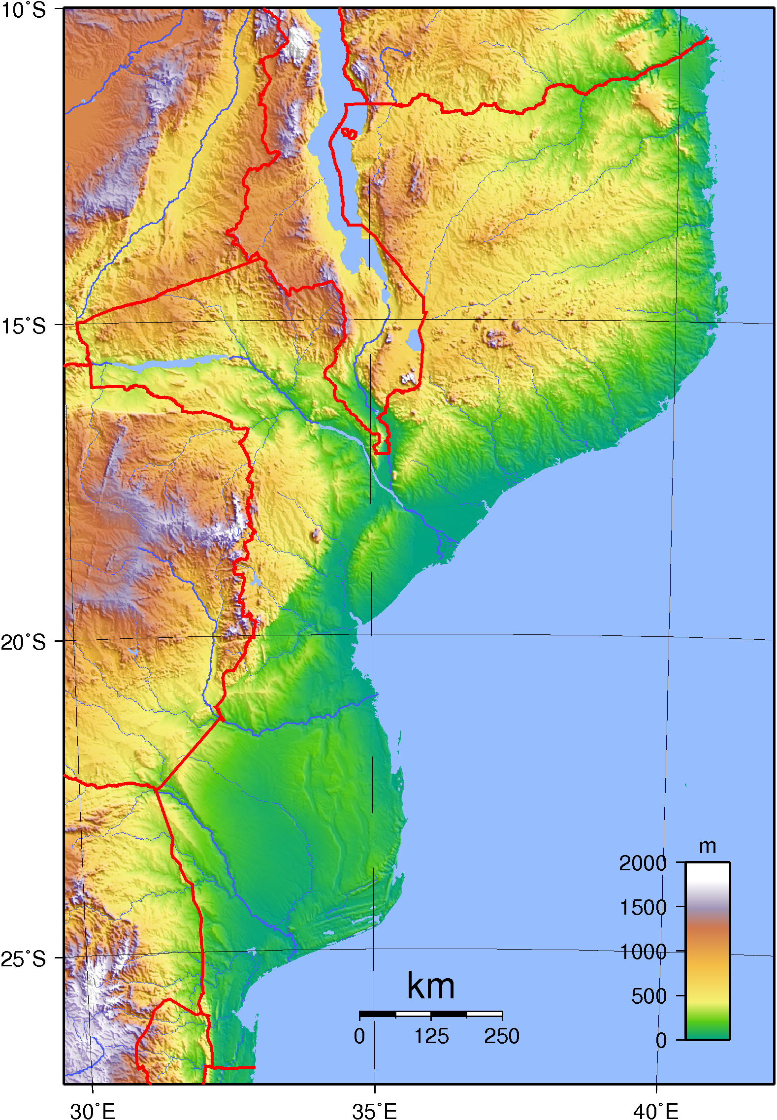 Topographic map of Mozambique. Created with GMT from public domain GLOBE data.